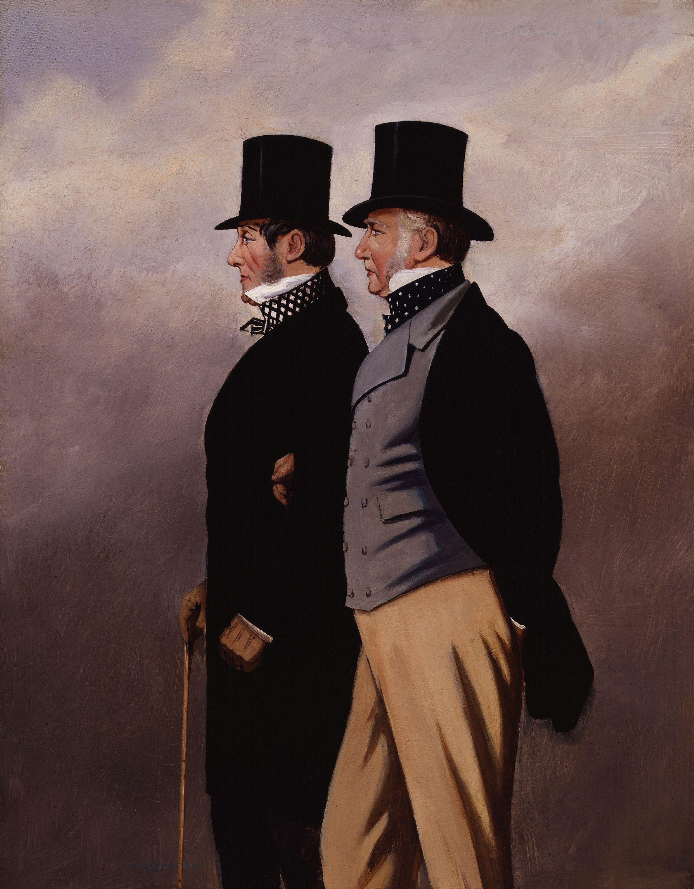 All images in this batch have been evaluated manually for evidence that the artist probably died before 1939, or that the work is anonymous or pseudonymous and was probably published before 1923. Artist floruit 1870, presumed dead by 1939.